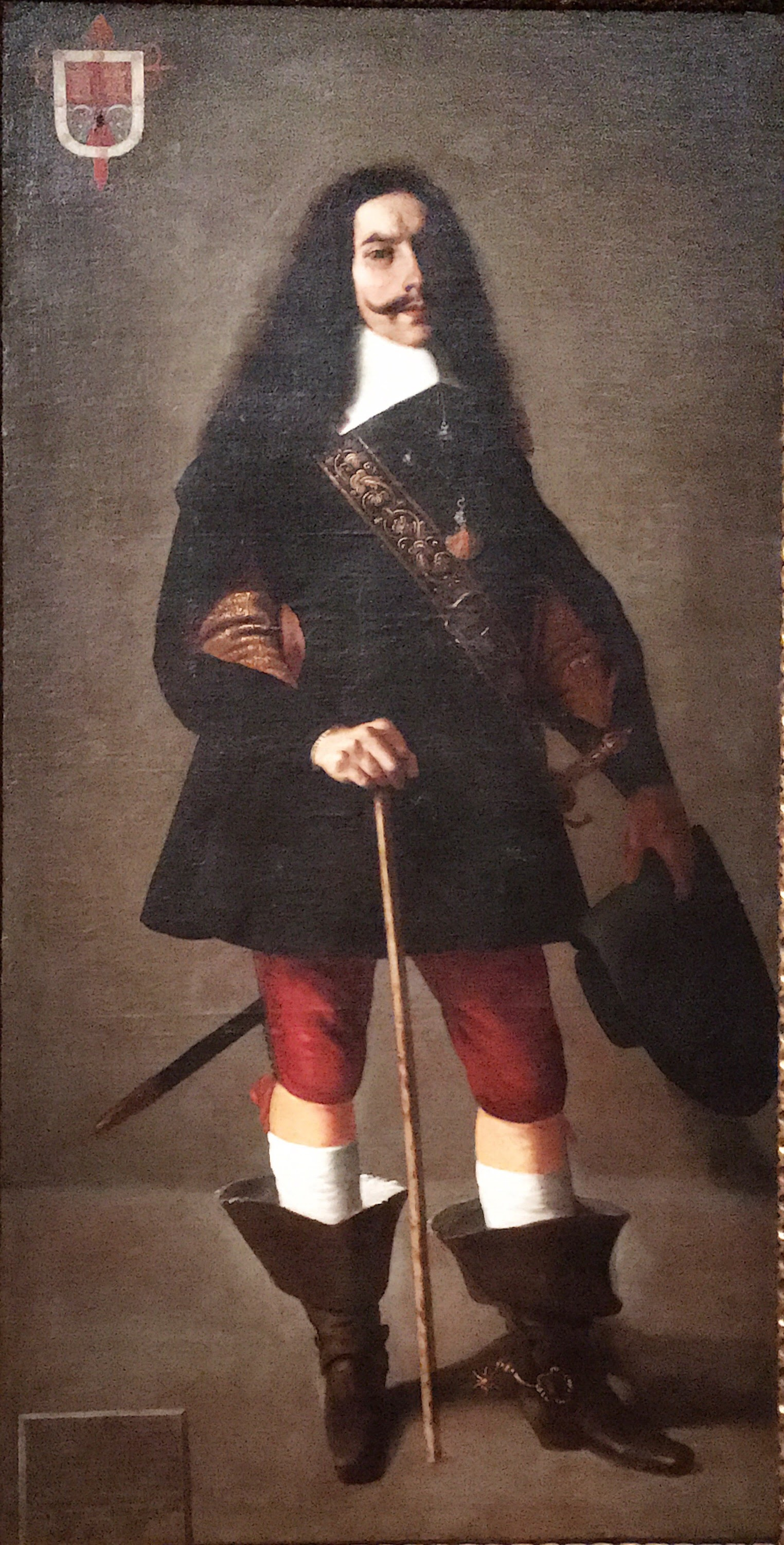 A photo scan of a portrait of Juan Bazo de Moreda by Francisco de Zurbarán in 1655, oil on canvas at the Detroit Institute of Arts in 2016.